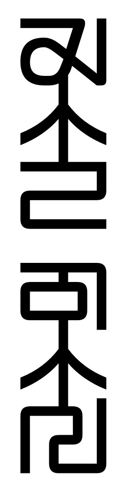 Monggol in Dorbeljin bicig